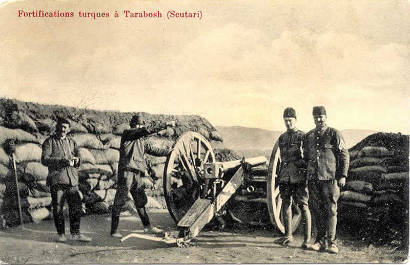 Ottoman fortification at Tarabosh (Scutari).